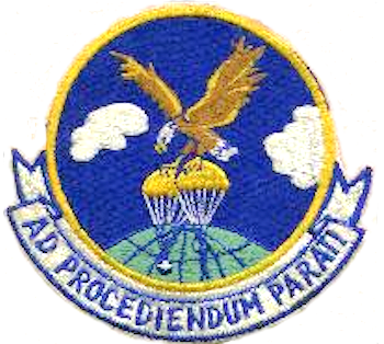 130th Air Commando Squadron - Emblem